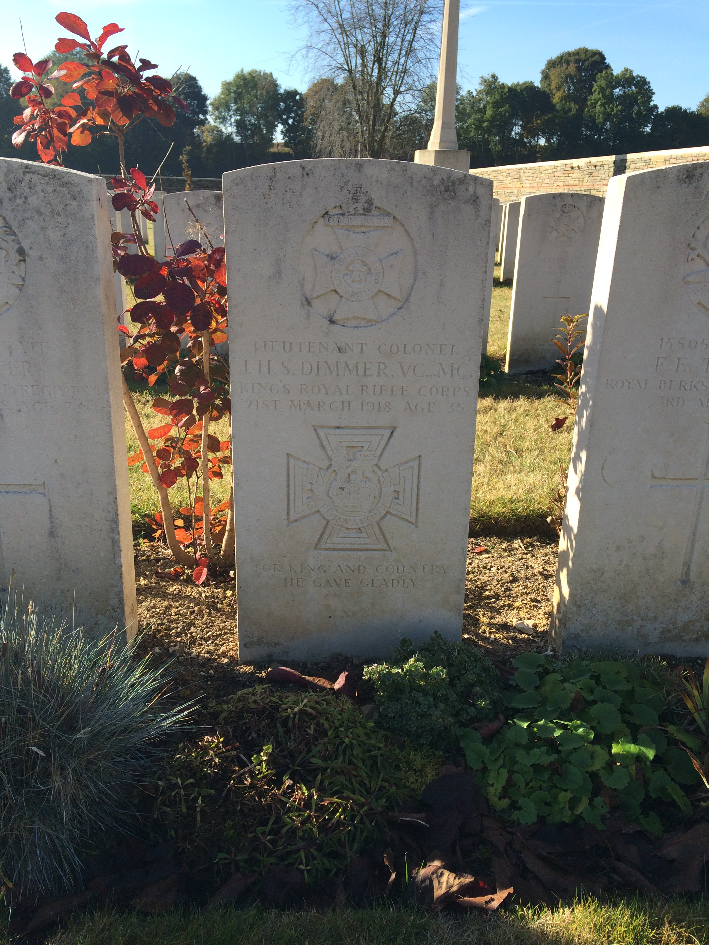 Tomb of John Dimmer (Vadencourt British Cemetery.)